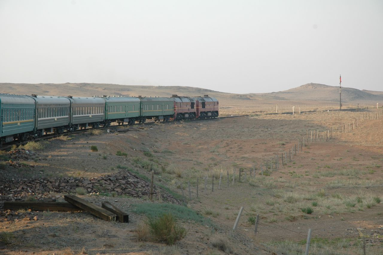 Trans-Mongolian Train